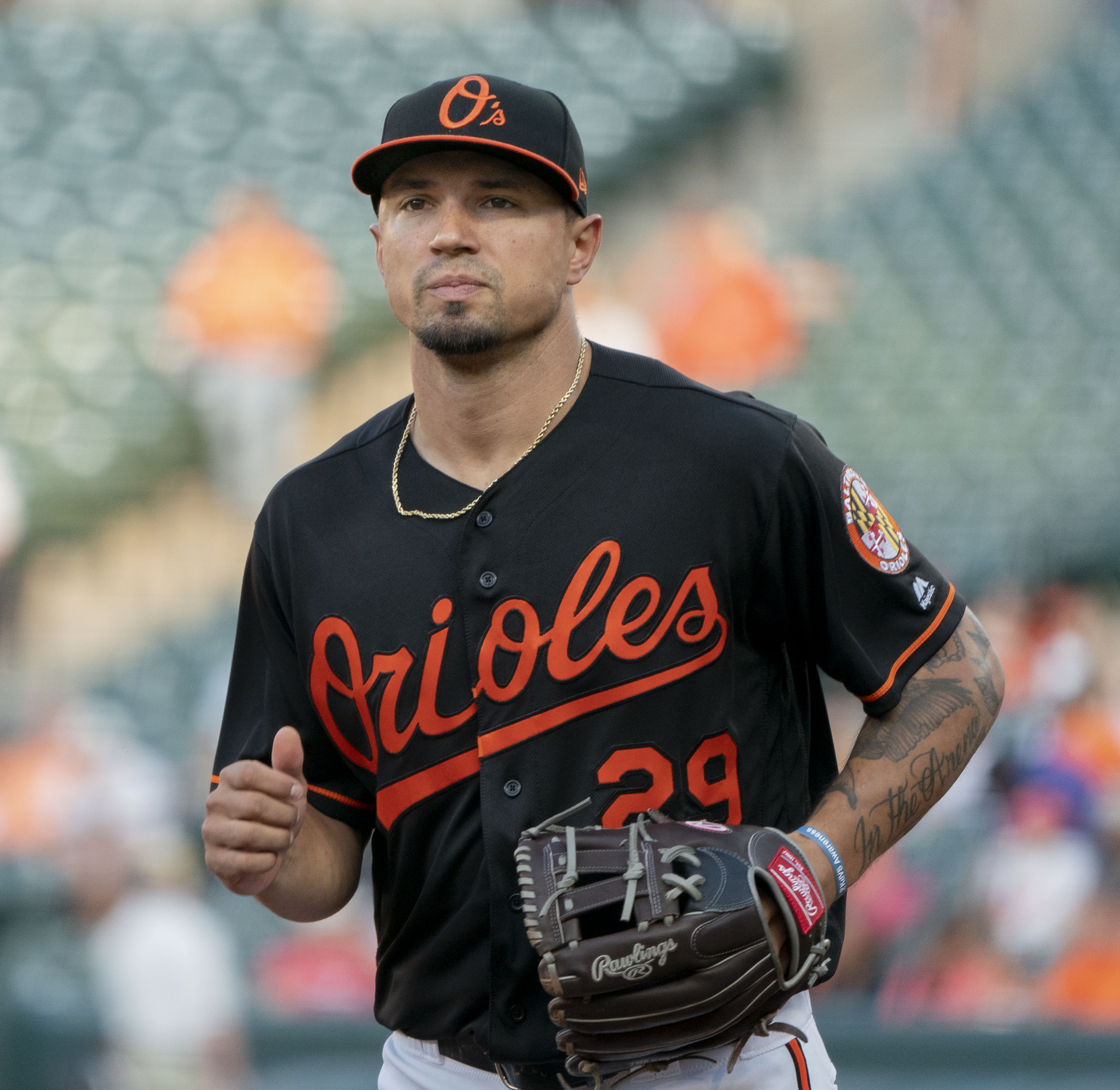 Rays at Orioles 5/11/18